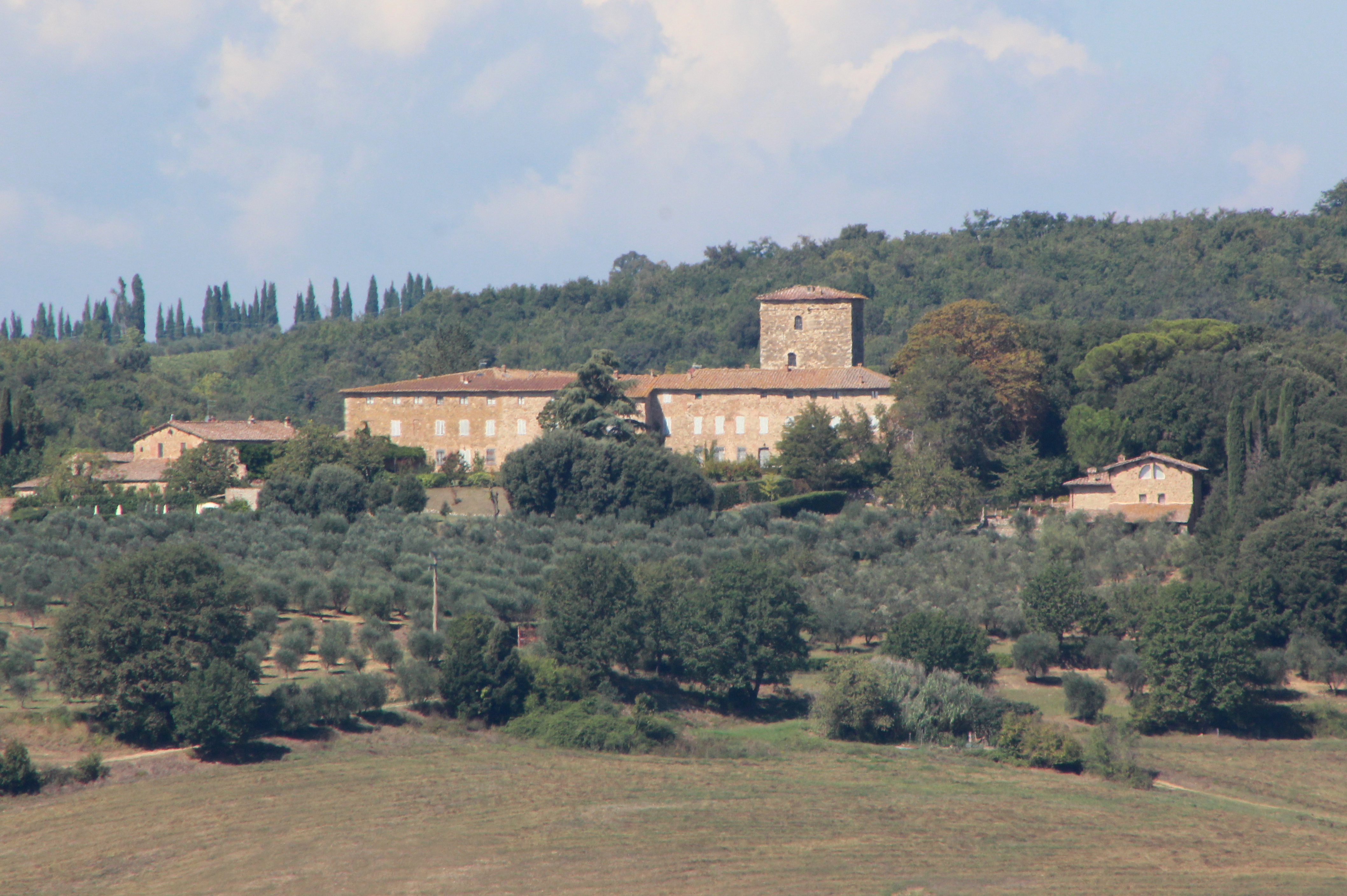 Vitignano, village of Castelnuovo Berardenga, Province of Siena, Chianti, Tuscany, Italy